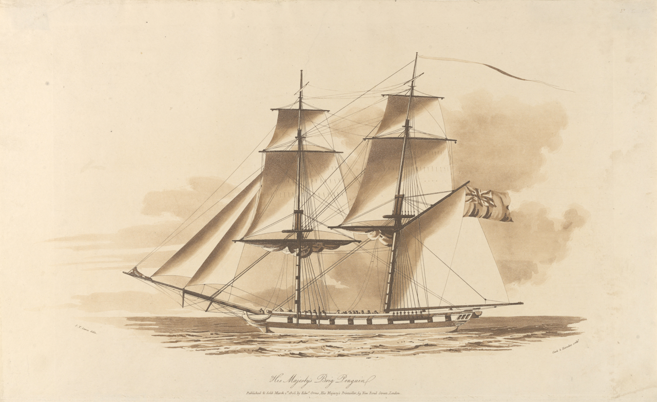 His Majesty's Brig Penguin Vignette.